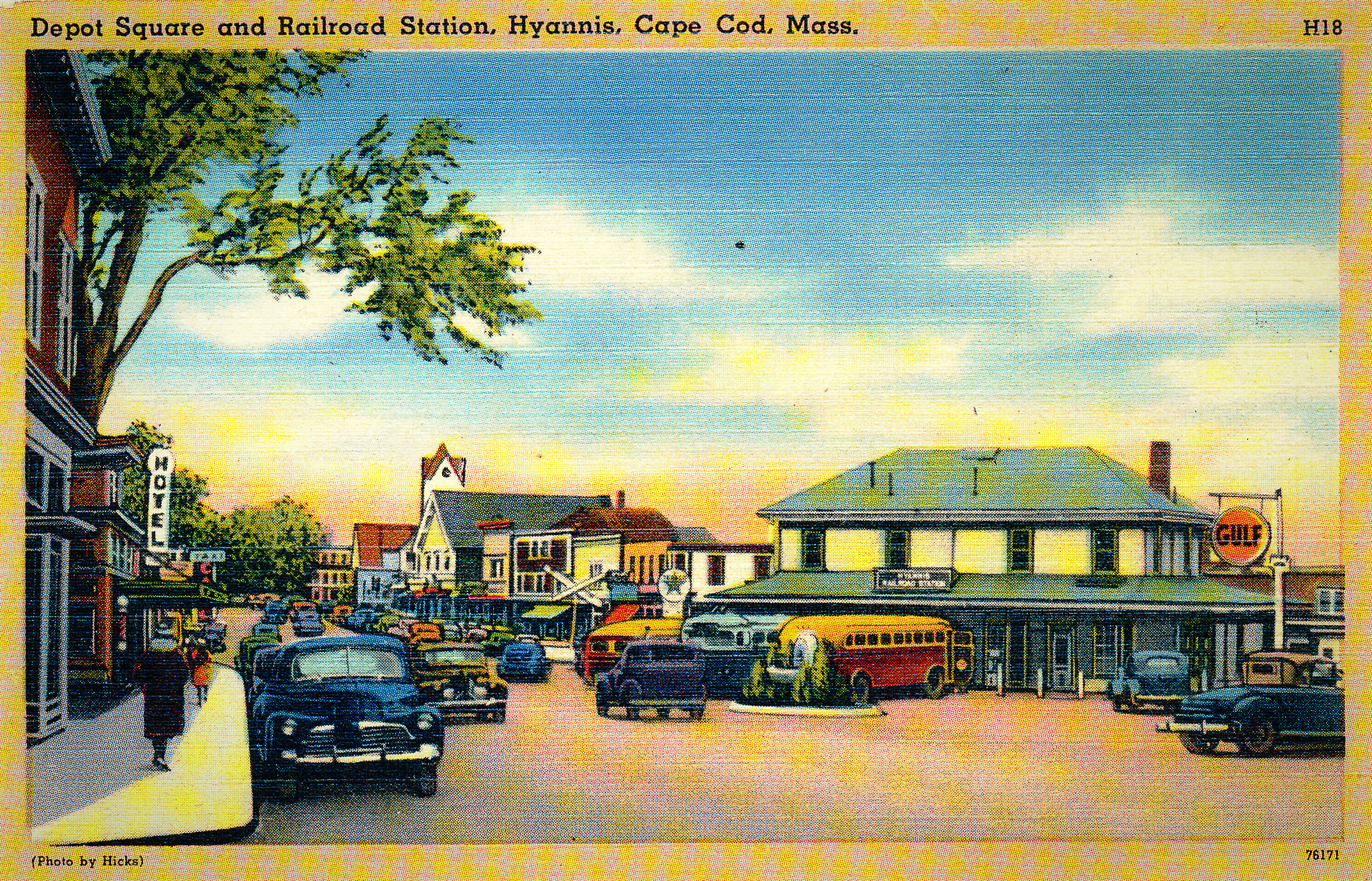 Postcard showing the railroad station in Hyannis, Cape Cod, Massachusetts, ca. 1950.